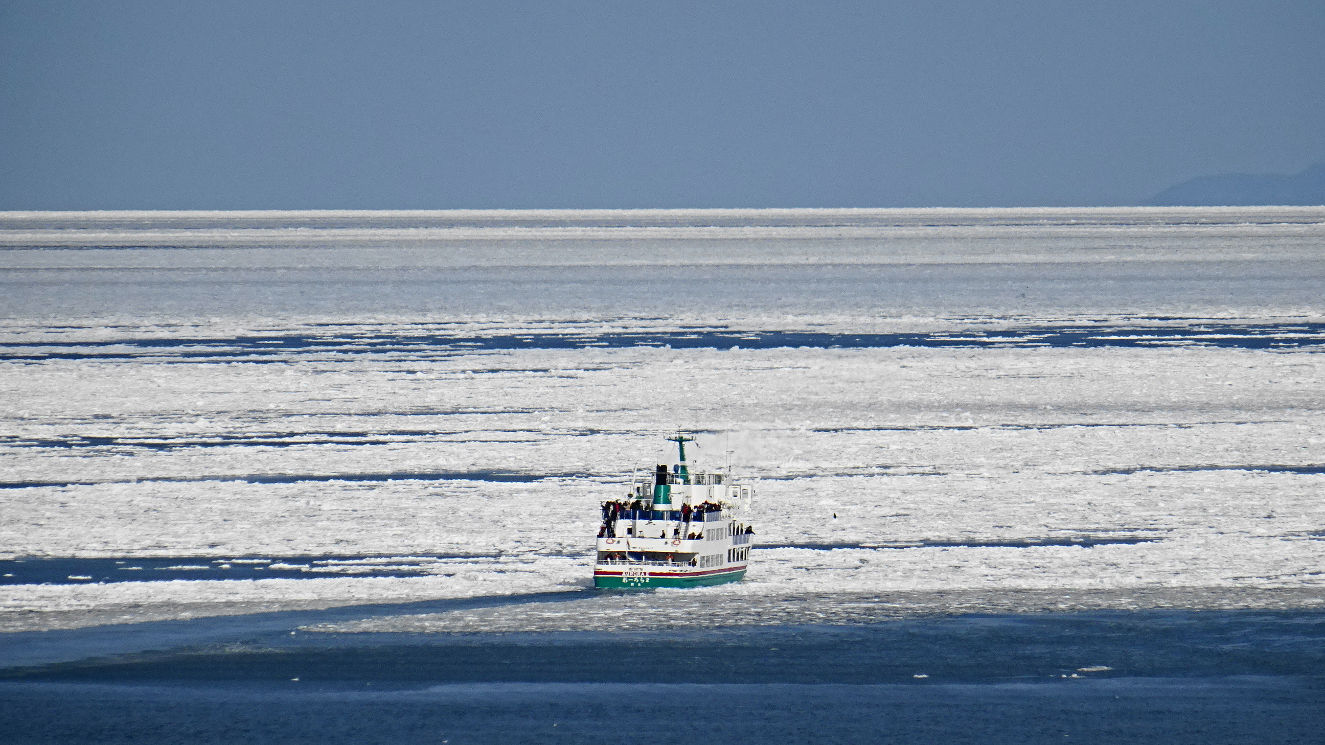 Abashiri Drift Ice Sightseeing & Icebreaker Ship "Aurora II"